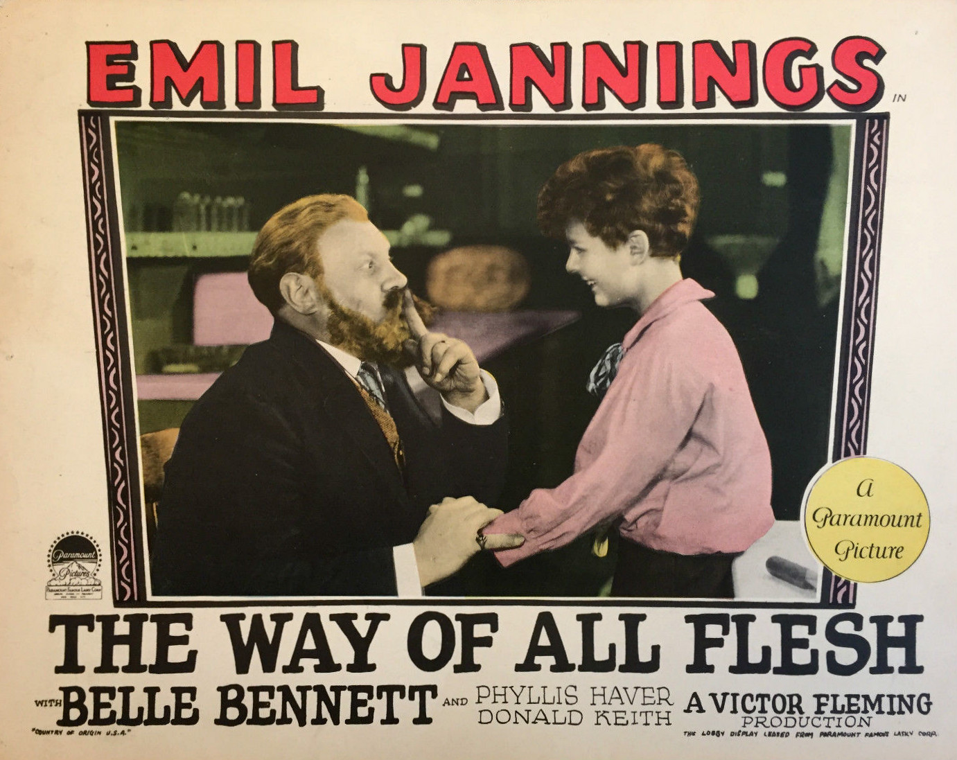 Lobby card for the American drama film The Way of All Flesh (1927).